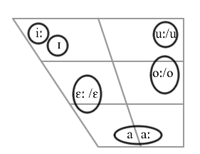 IPA vowel chart for Czech.